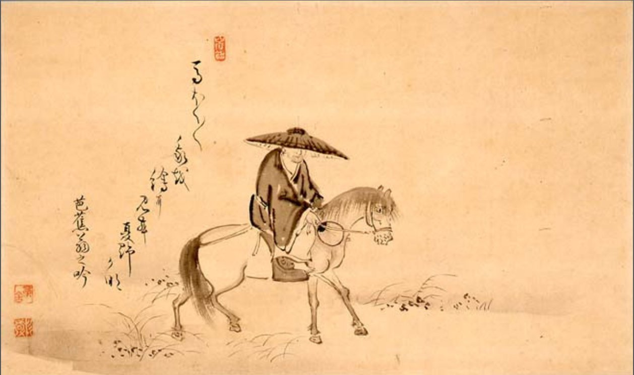 Matsuo Basho riding a horse by Sugiyama Sanpū 杉山杉風 (1647-1732) Сугияма Сампу (Sugiyama Sanpū) 杉山杉風 (1647-1732) хайкай-поэт периода Эдо и ученик Мацуо Басё.